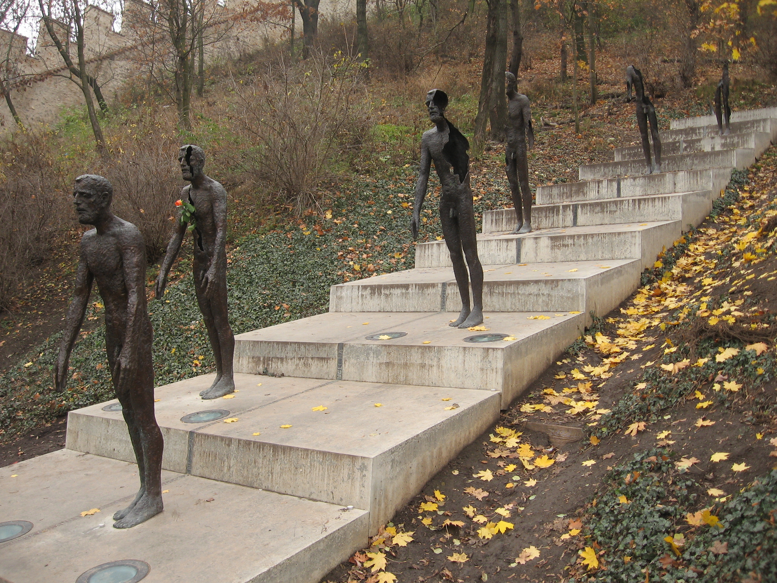 Monument to the victims of communism, sculptures by Olbram Zoubek, project: Zdeněk Hölzl and Jan Kerel. Inauguration: may 2002. Prague